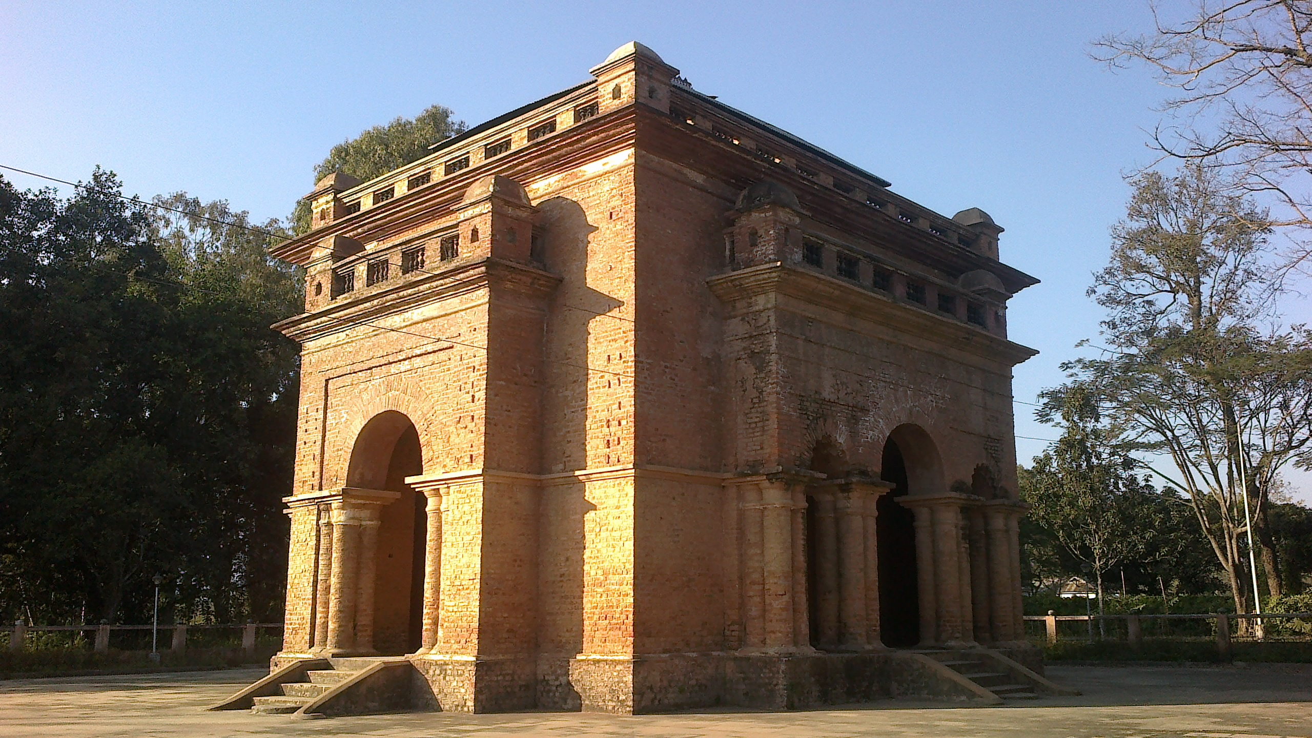 It is situated at proper Imphal into the Kangla heritage site.